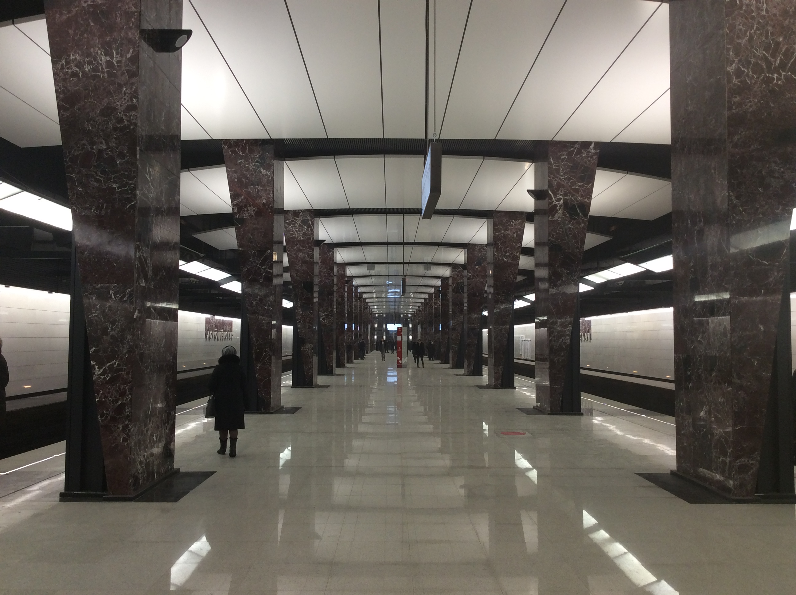 Khoroshyovskaya (Moscow Metro), the opening day